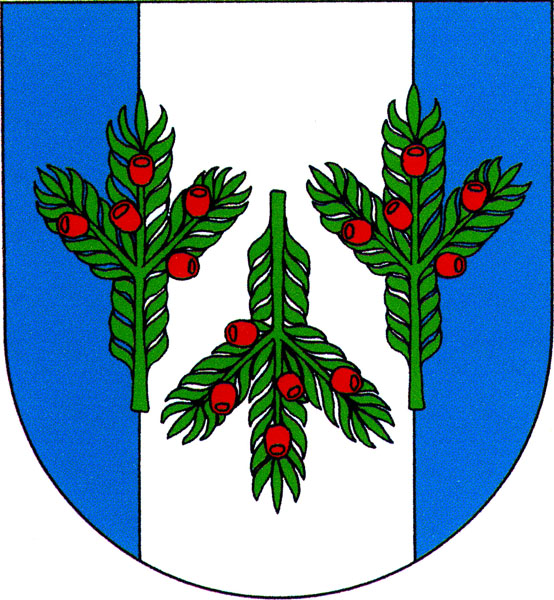 Municipal coat of arms of Tisá village, Ústí nad Labem District, Czech Republic. CoA granted to the village 4/VI/1998